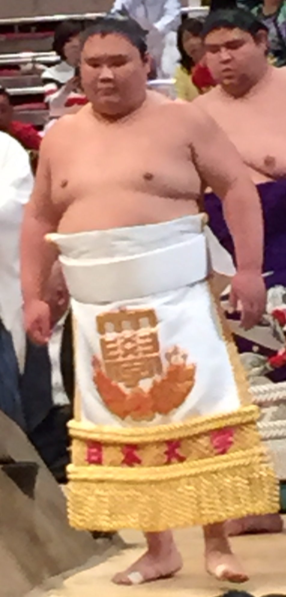 Taken at May tournament 2015